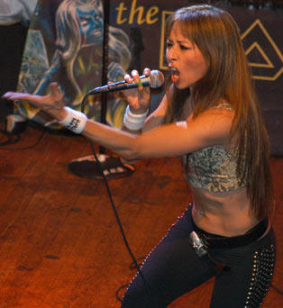 Aja Kim, singer of The Iron Maidens, tribute band to Iron Maiden.